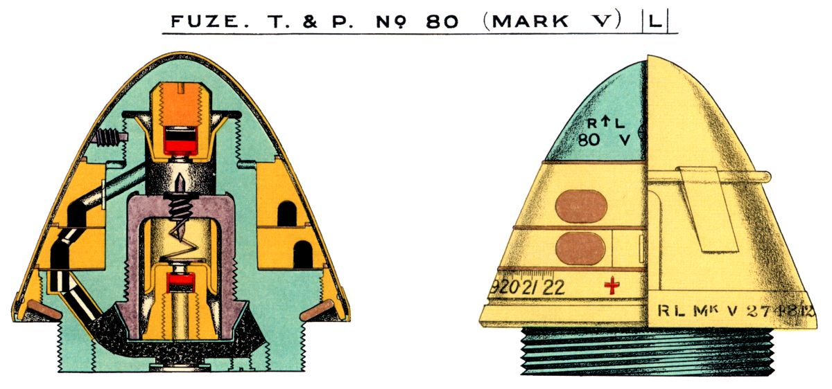 Diagram of British Time and Percussion Fuze No. 80 Mk V, Land service. Made by Vickers under licence from Krupp of Germany. No. 80 was originally introduced in 1905 for use with QF 18 pounder shells and was the first British fuze with the 2-inch gauge thread. Height 60 mm, width at widest point 60 mm. Weight 10.229 oz. The marking RL indicate it was made by Royal Laboratories. This was the first of the new 2-inch gauge fuzes. 2 time rings, 22 seconds burn time at rest. Body made of aluminium. Brass ring on the body graduated from 0 to 22, reading in tenths. Cover is made of brass; a brass strip is soldered to its lower edge, lower end secured by a ring of brass wire, intended to be gripped by fingers when removing cover. Listed in 1915 for use with shrapnel shells for the following guns :- BL 2.75 inch mountain gun QF 13 pounder QF 18 pounder QF 4 inch Mk IV